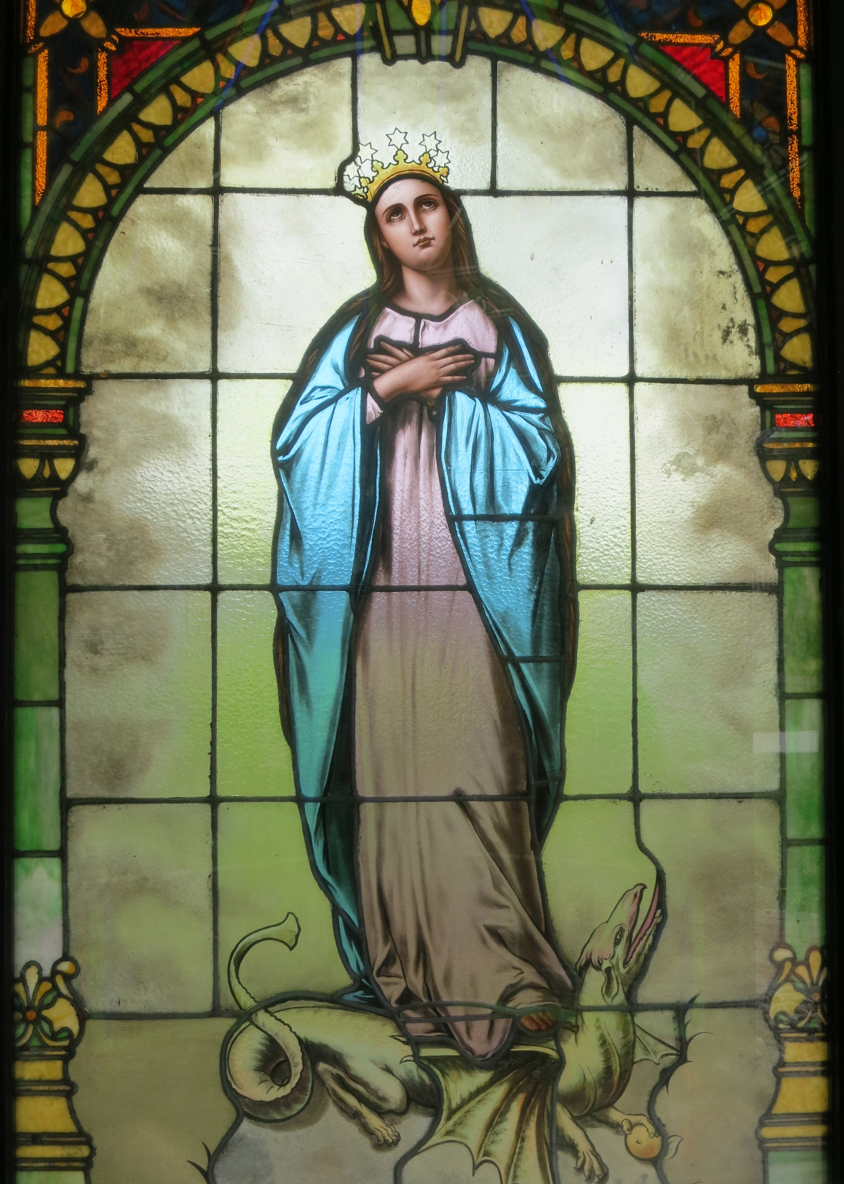 Stained Glass Memorial Grotto - Immaculate Conception (Sorrowful Mother Shrine)